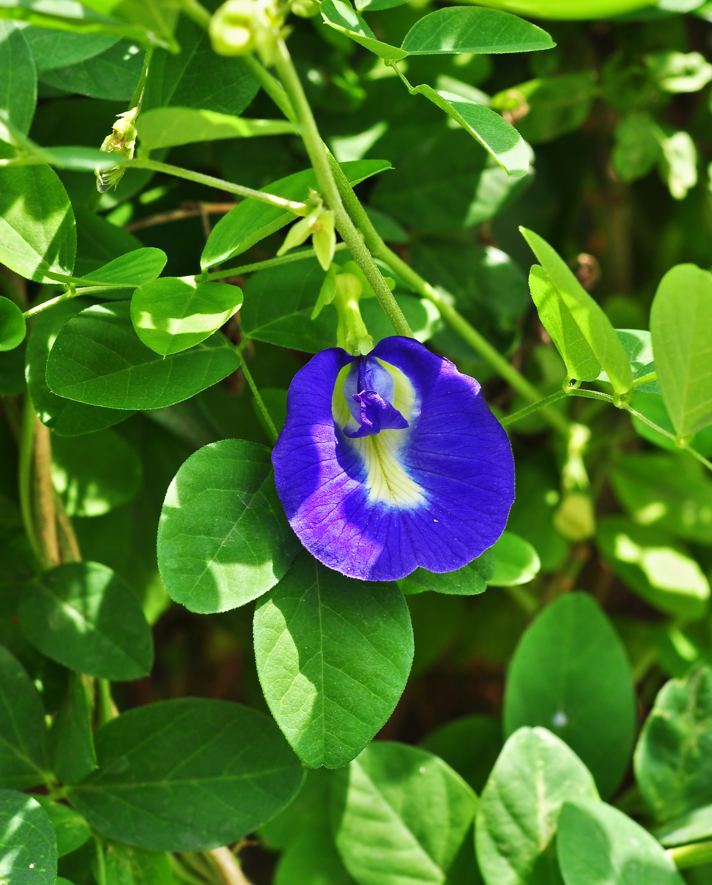 Clitoria ternatea flower. It is a plant species belonging to the Fabaceae family. This plant is native to tropical equatorial Asia, but has been introduced to Africa, Australia and America. Taken at Burdwan, West Bengal, India.